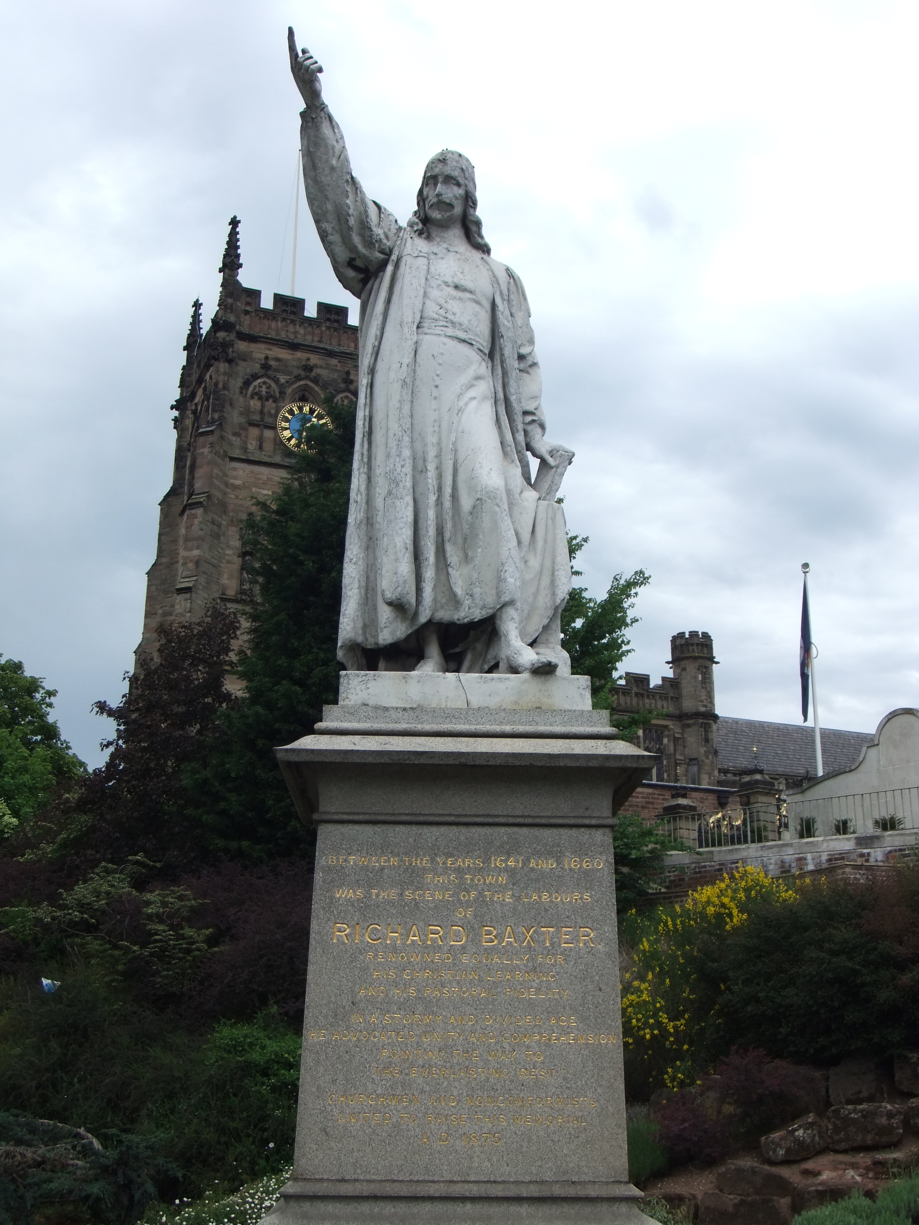 Monument to Richard Baxter at St Mary's, Kidderminster, Worcestershire, England.